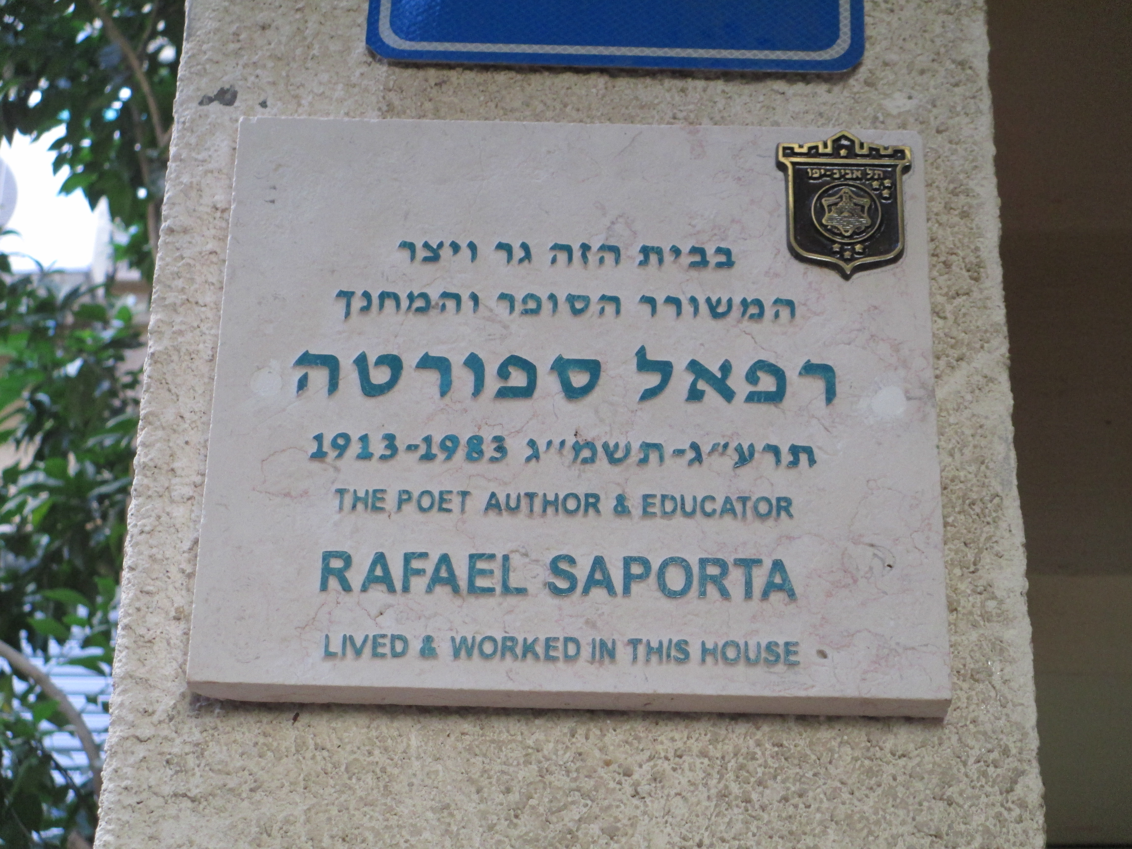 memorial plaque on the poet rafael saporta house in tel aviv לוחית זיכרון על ביתו של המשורר רפאל ספורטה ברח' אלכסנדר ינאי 18 בתל אביב